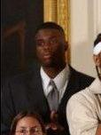 Jeremy McNeil, former college basketball player for the Syracuse Orange. Was a member of Syracuse's 2003 NCAA National Championship team.